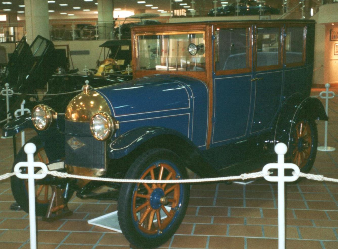 Bellanger 24 CV Type A1 (1921), limousine coachwork by Cunard